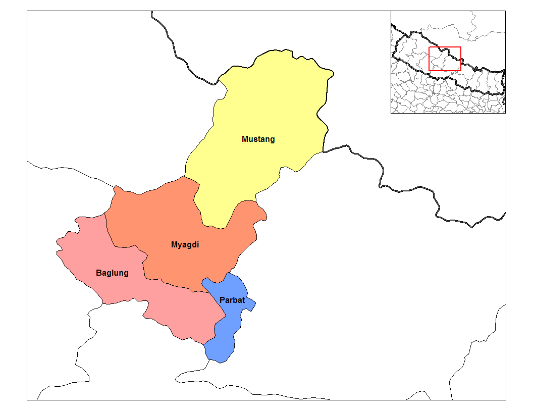 Map of the districts of Dhawalagiri Zone (wp-EN) in Nepal. Created by Rarelibra 18:15, 18 September 2006 (UTC) for public domain use, using MapInfo Professional v8.5 and various mapping resources.